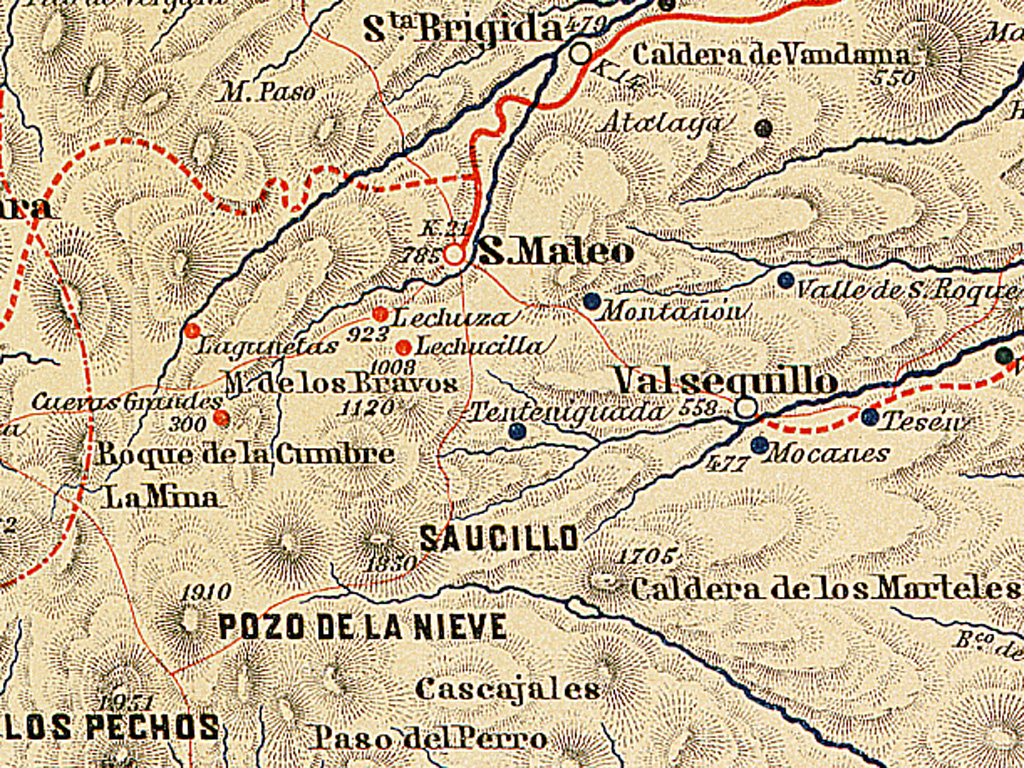 Old Map of Vega de San Mateo, Gran Canaria (Canary Islands, Spain). Map of 1896.